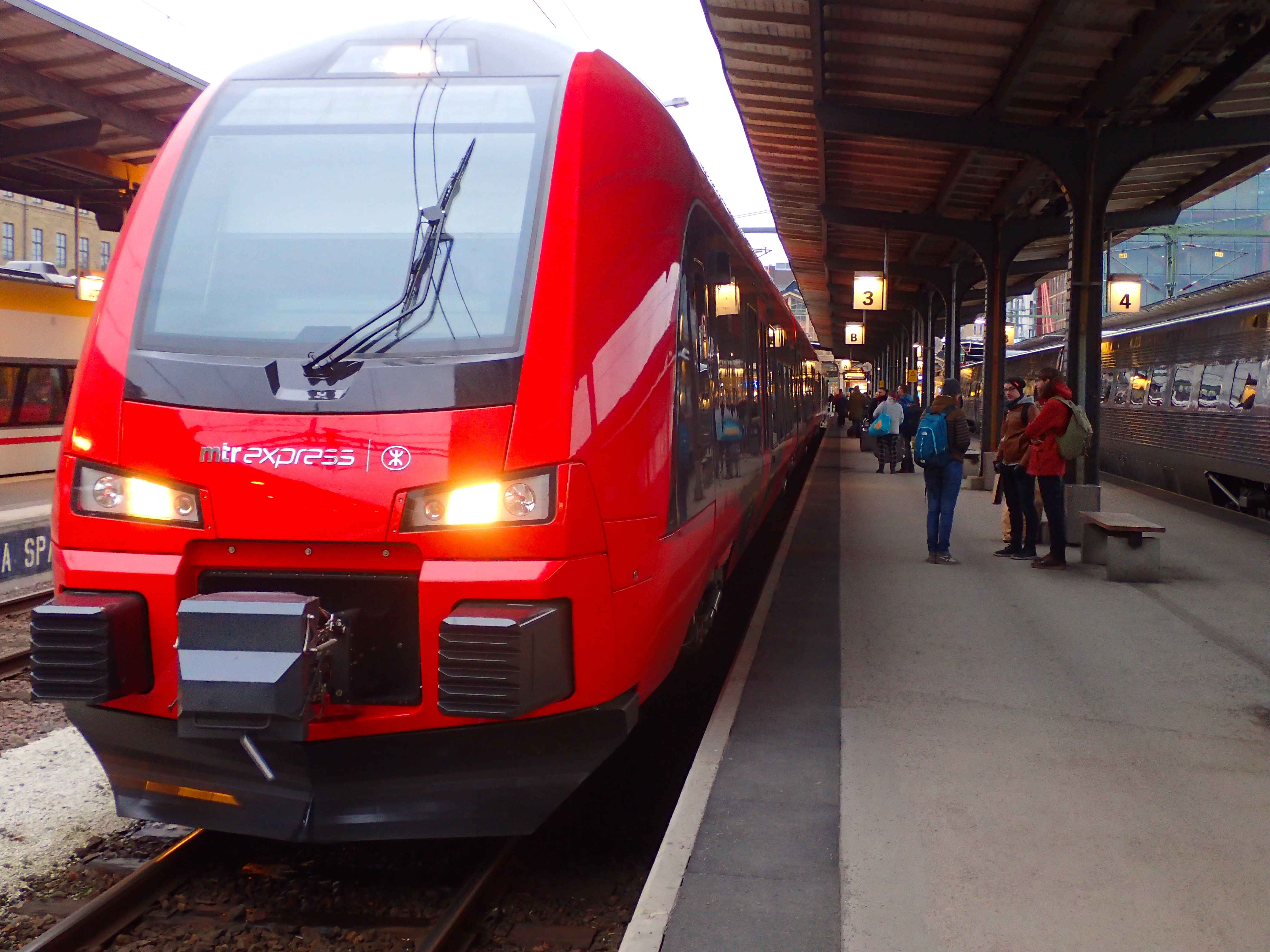 MTR Express FLIRT to Stockholm in Göteborg C, 22 Mar 2015